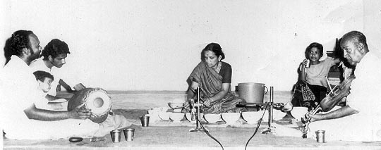 This is a scanned image of a picture taken during an All India Radio recording (c.a. 1950)